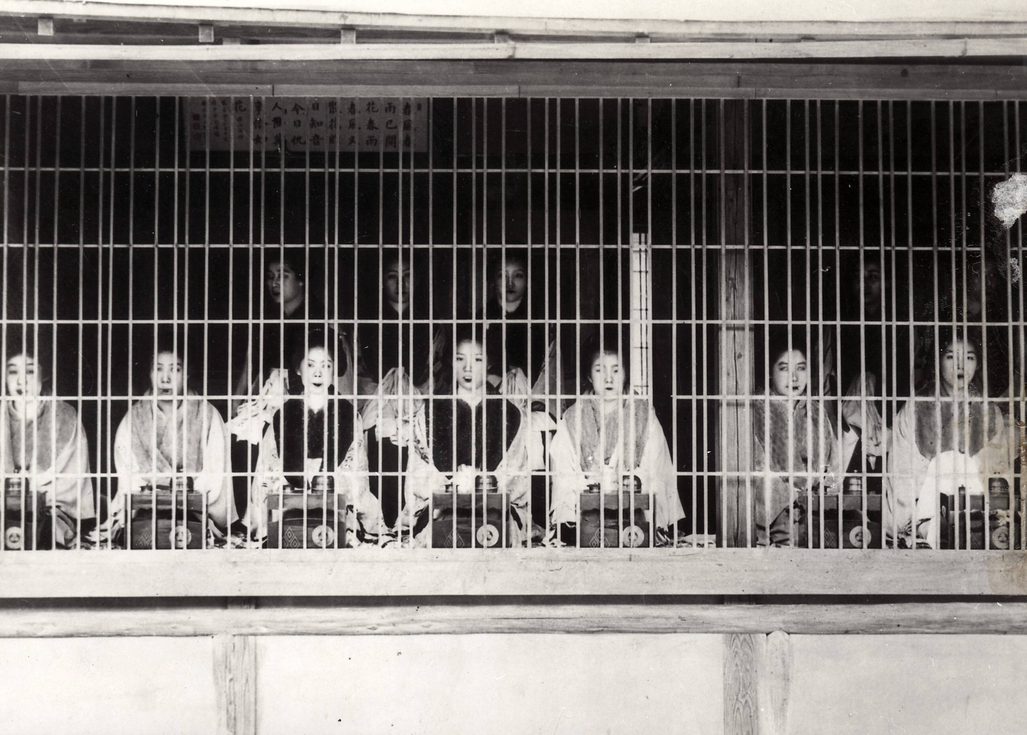 [Brothel] Japanese Yoshiwara prostitutes shown behind bars. Japan, 1931 or earlier.